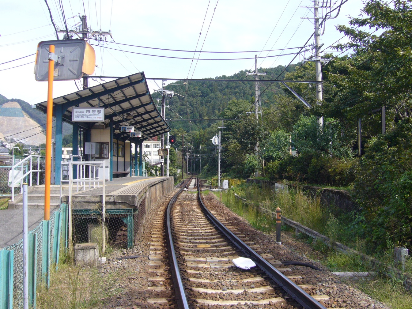 Entire view of Ichihara Station on the Eizan Electric Railway Kurama Line seen from the crossing by the end of the platform near Demachiyanagi. To the right of the platform now in use is the abandoned platform used until 1939 when the line became single track.